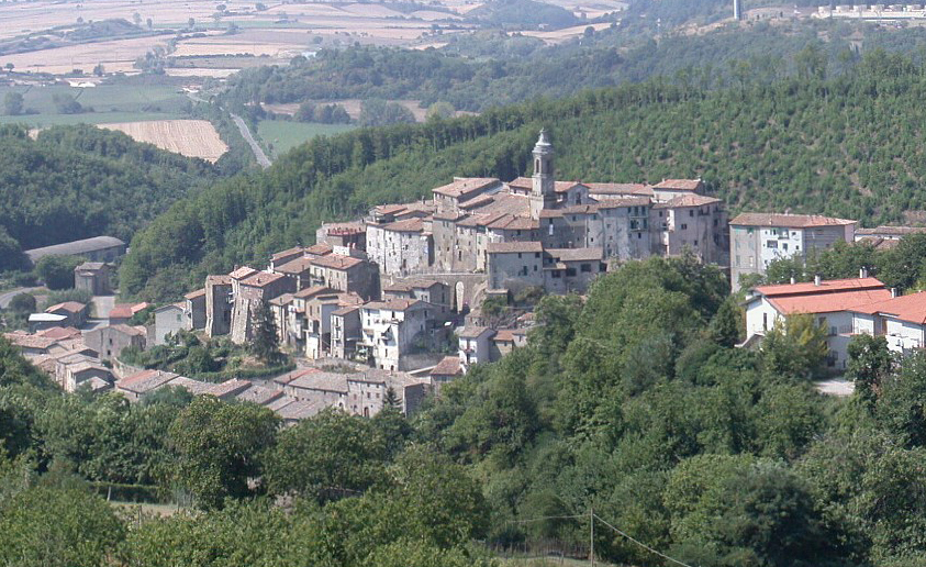 Cropped version of File:Latera_Panorama.jpg. Suitable for tables and focused over old town